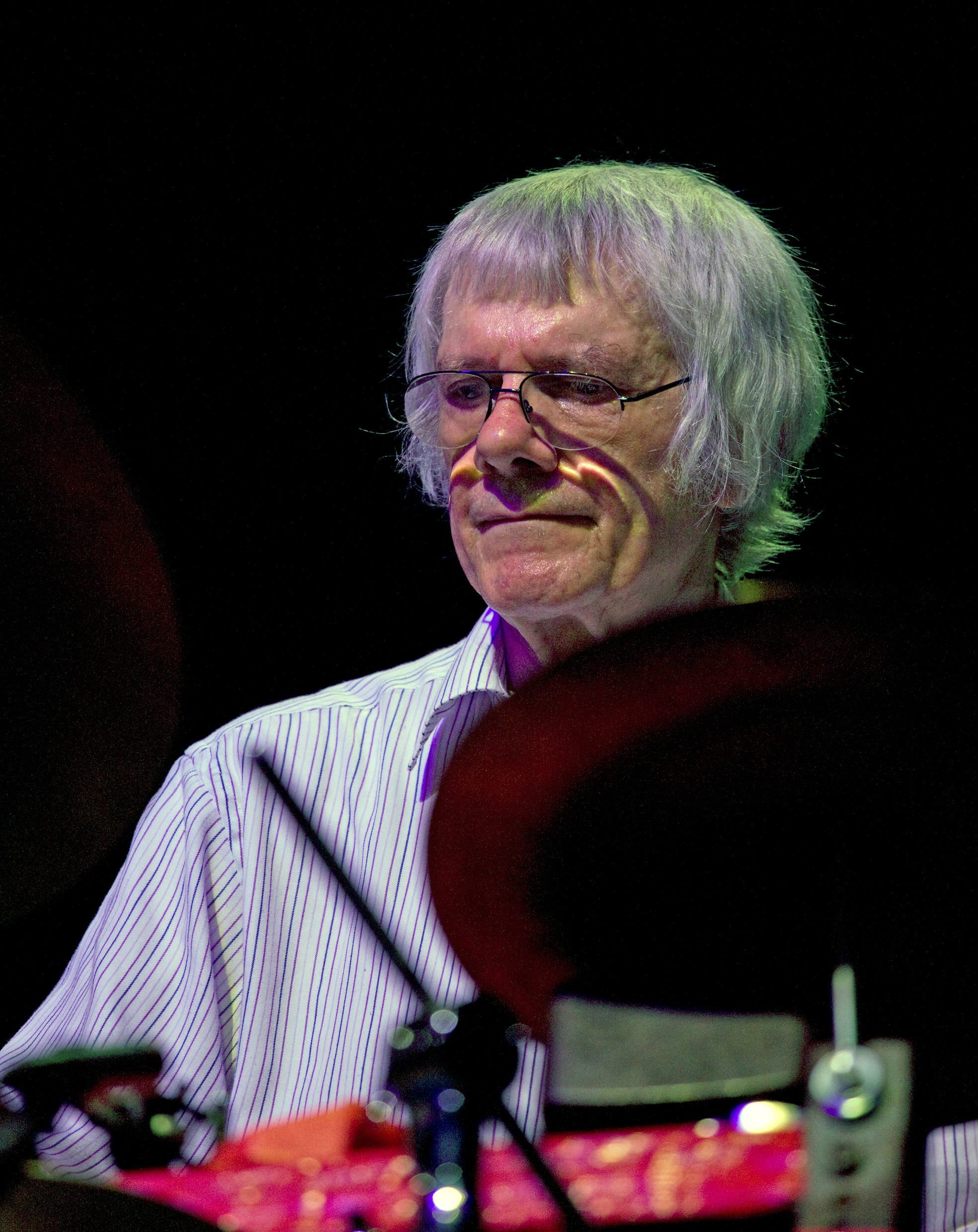 Tony Oxley, 12. Mai 2008, Moers Festival